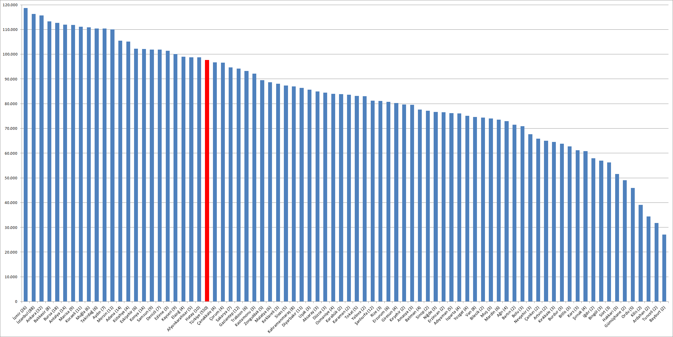 Votes required for each MP in different provinces of Turkey in the 2015 elections